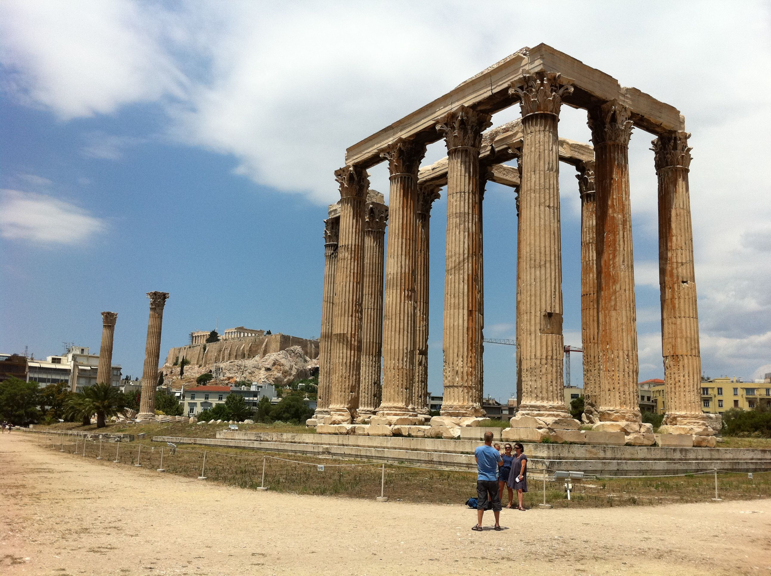 Athens, Greece